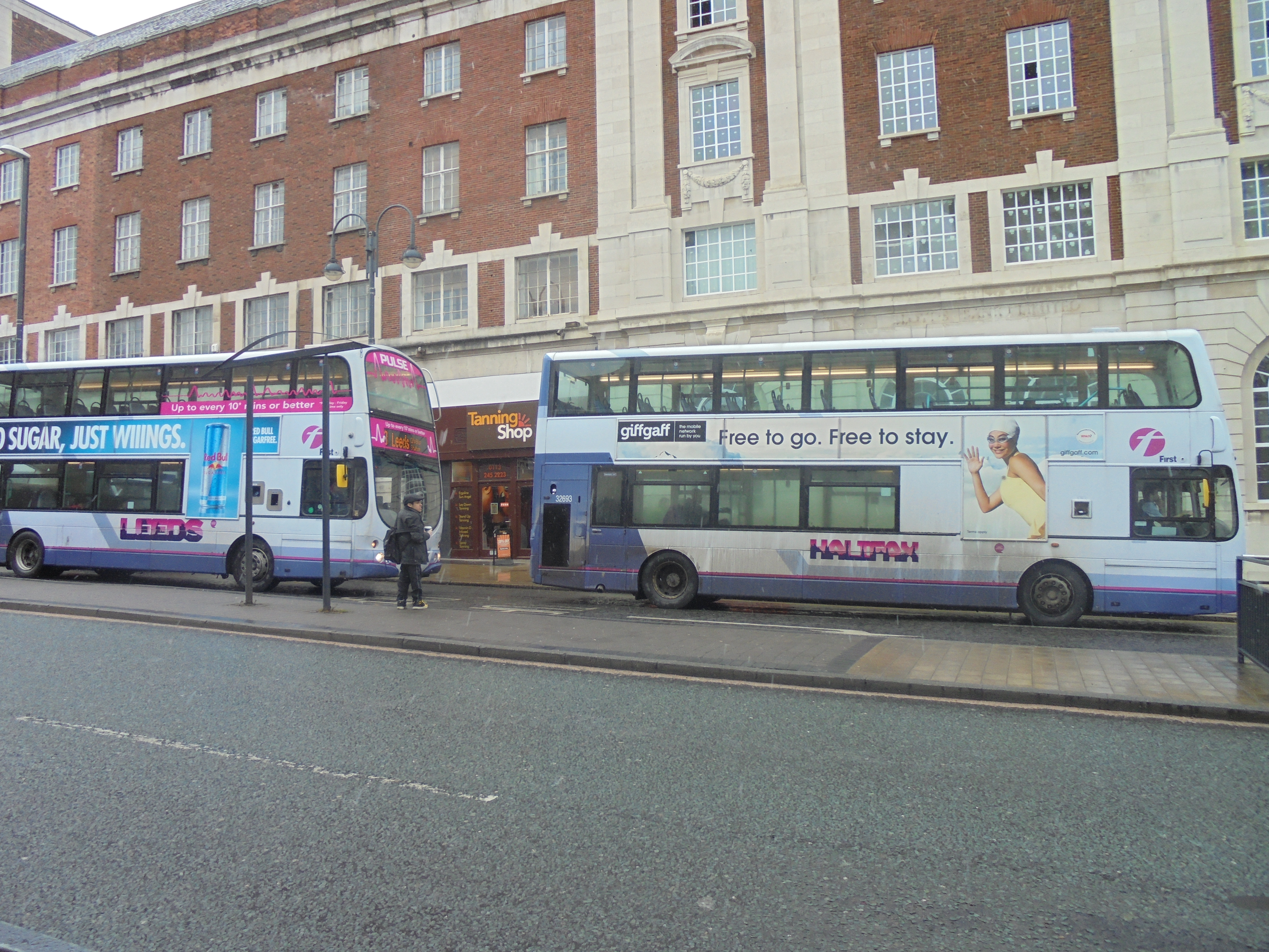 First Leeds and First Halifax buses, the Headrow, Leeds, West Yorkshire. Taken on the afternoon of Tuesday the 6th of February 2018.